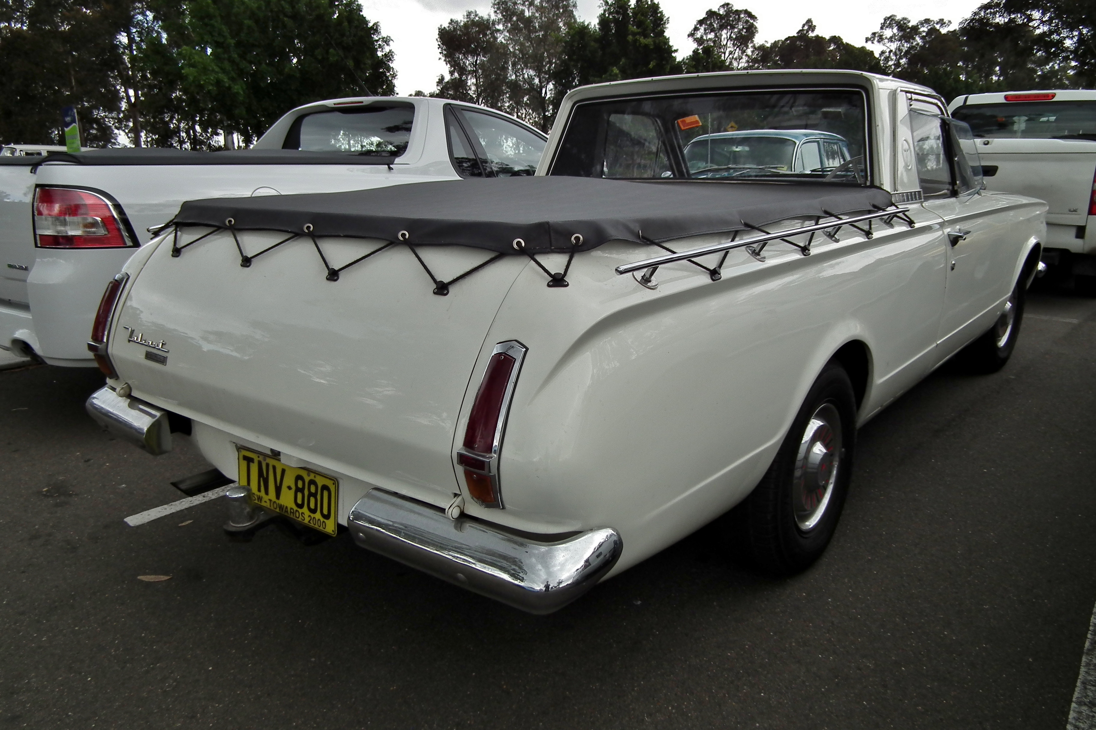 Chrysler AP6 Valiant Wayfarer utility. Taken in the car park at the 2011 New South Wales All Chrysler Day, held at Fairfield Showground, Prairiewood, Sydney.